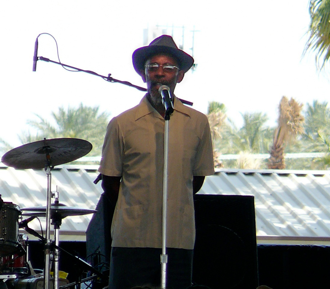 Linton Kwesi Johnson (LKJ) at Coachella